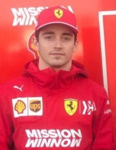 2019 Formula One tests Barcelona, Leclerc.